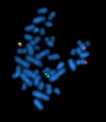 FISH image of bcr/abl positive rearranged metaphase